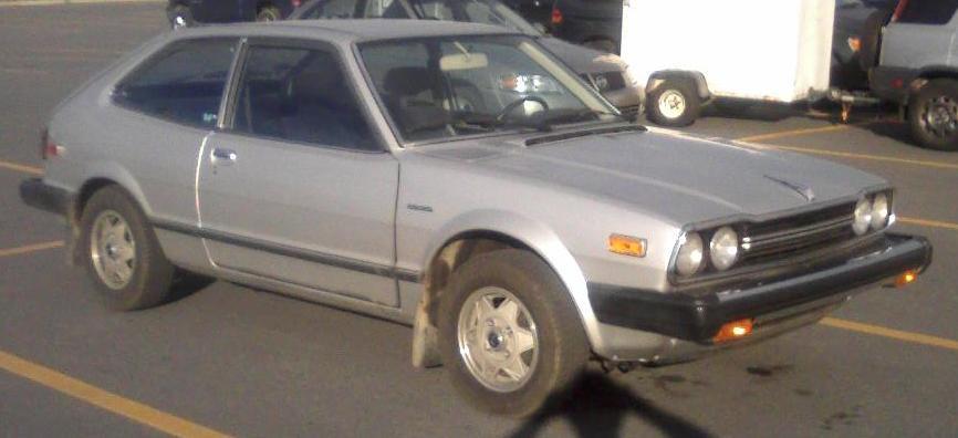 1979-1981 Honda Accord photographed in Vaudreuil-Dorion, Quebec, Canada.